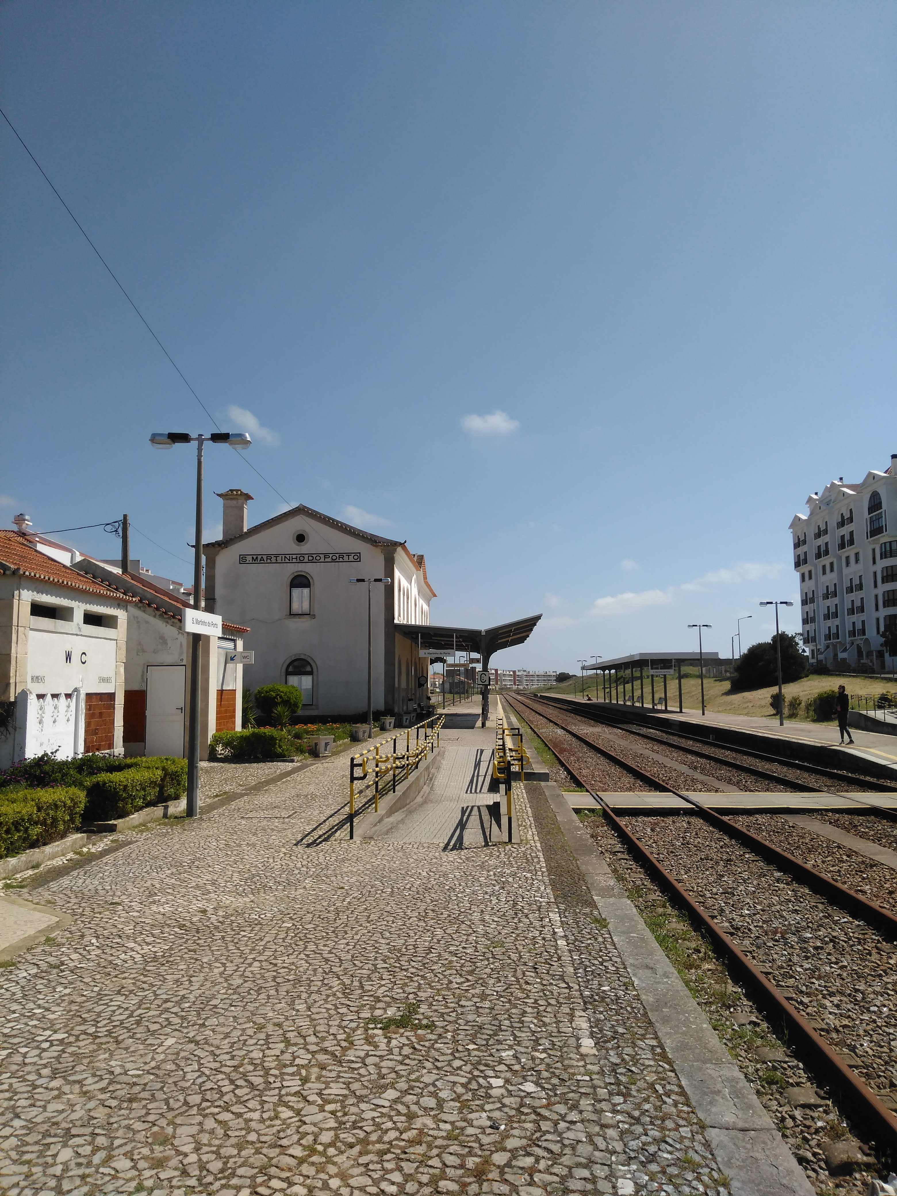 São Martinho do Porto train station on Linha do Oeste (Western Railway), Portugal